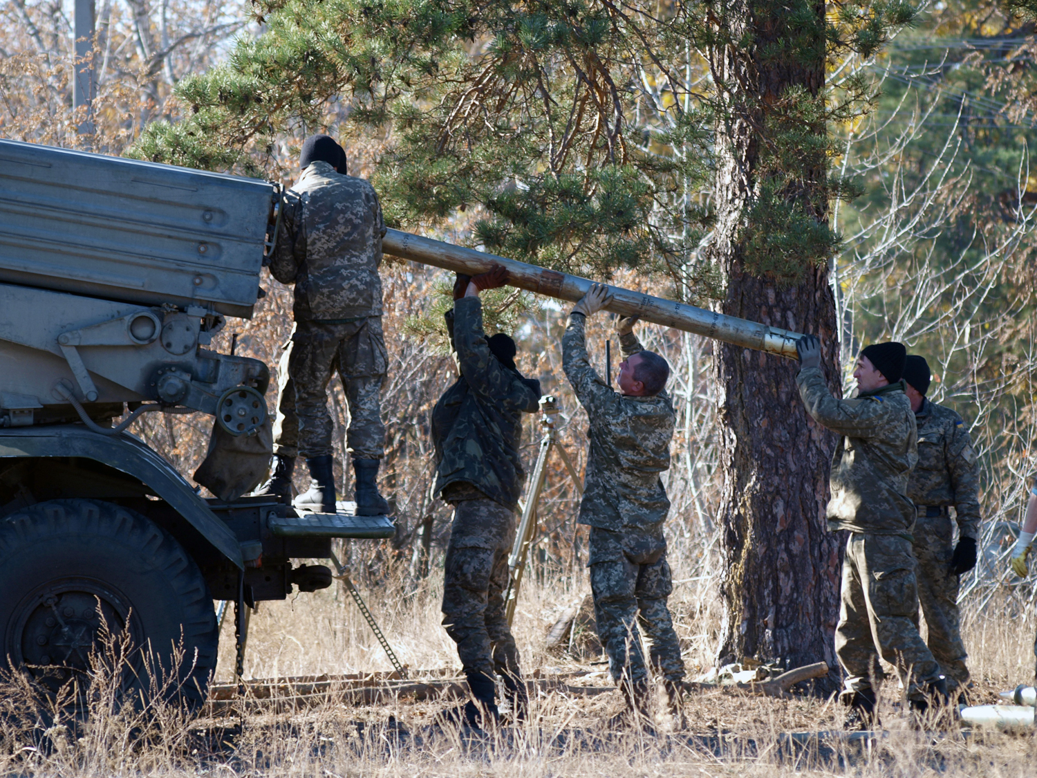 Artillery training